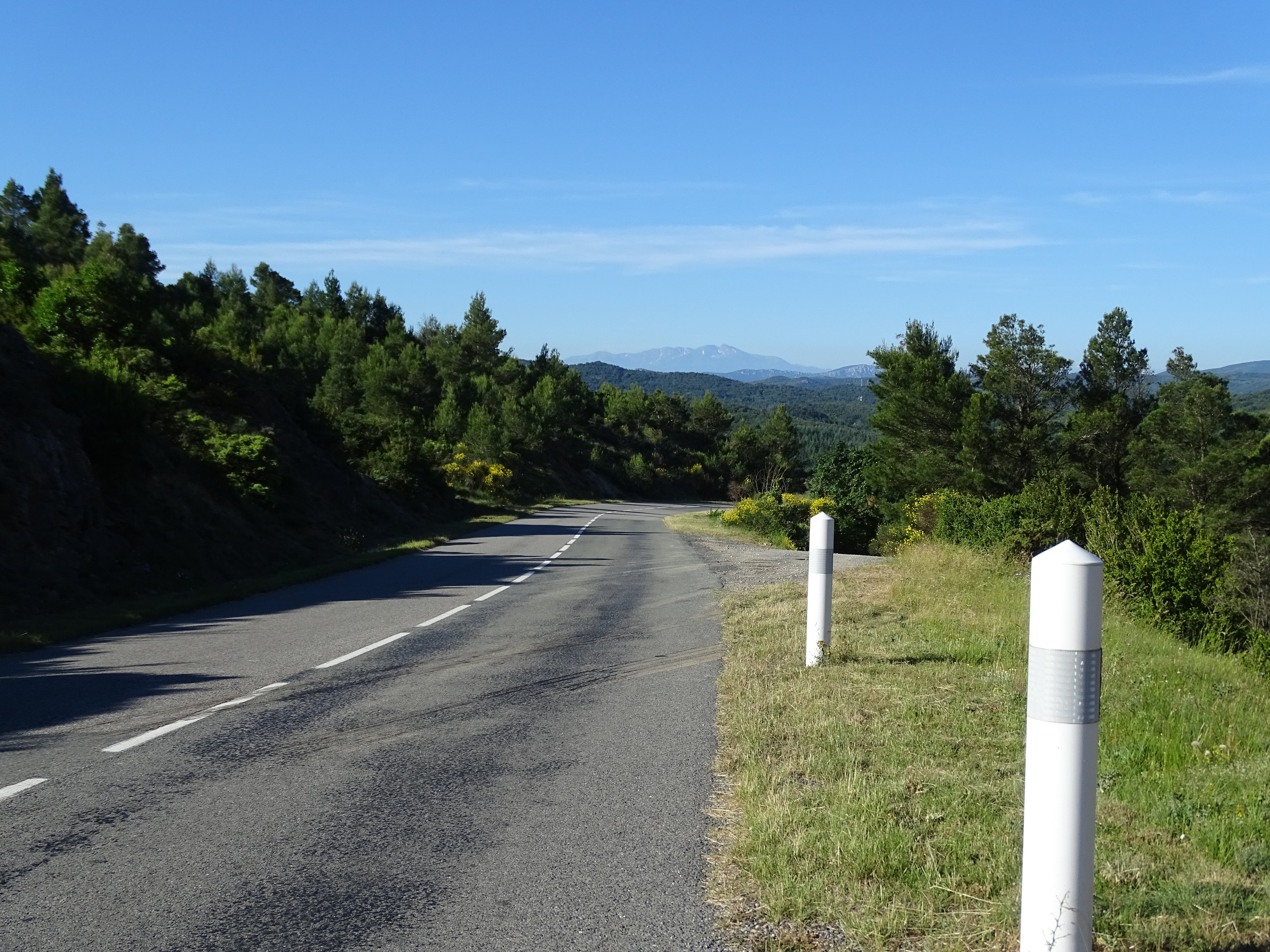 D613 at Col de Villerouge to the south in June 2018